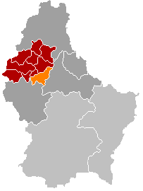 Heiderscheid municipality location (valid until 1 January 2012). Own edit of Kanton WiltzLocatie.png